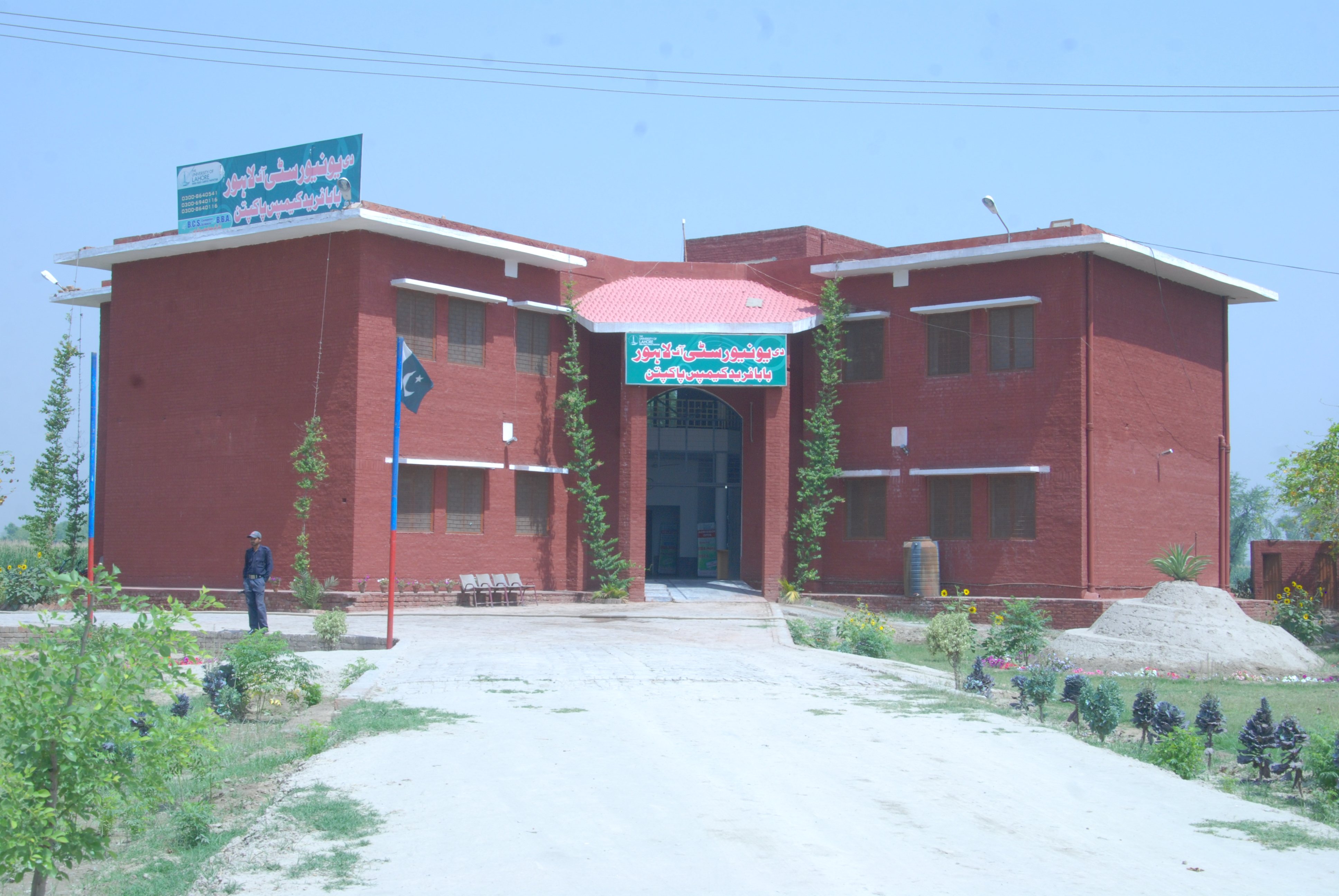 University of Lahore